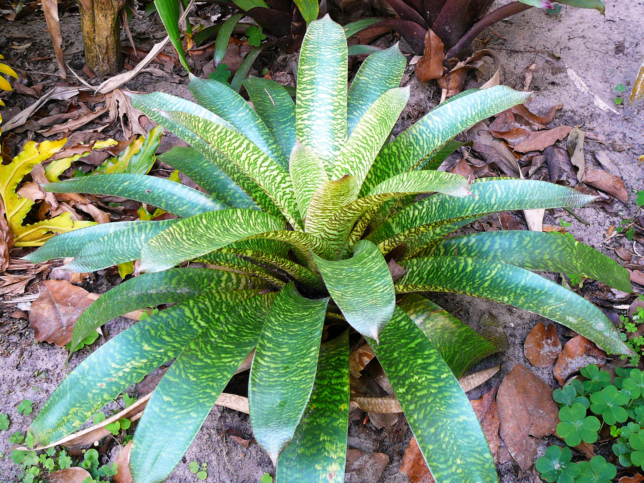 Vriesea Hieroglyphica